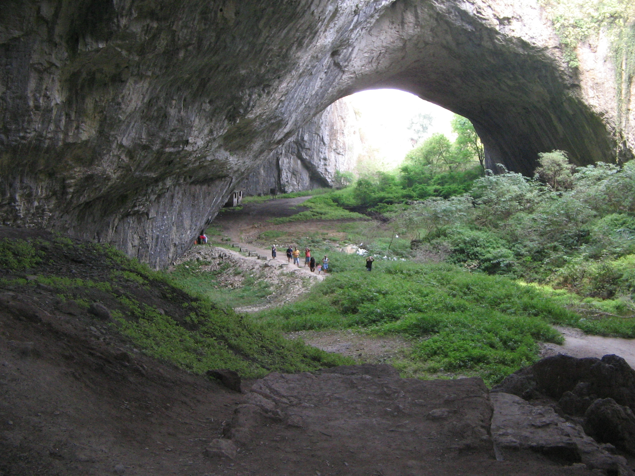 View of the Devetashka cave, Bulgaria